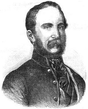 Antal Reguly (1819-1858), Hungarian linguist and ethnographer notable for his contribution to the study of Finno-Ugric languages.